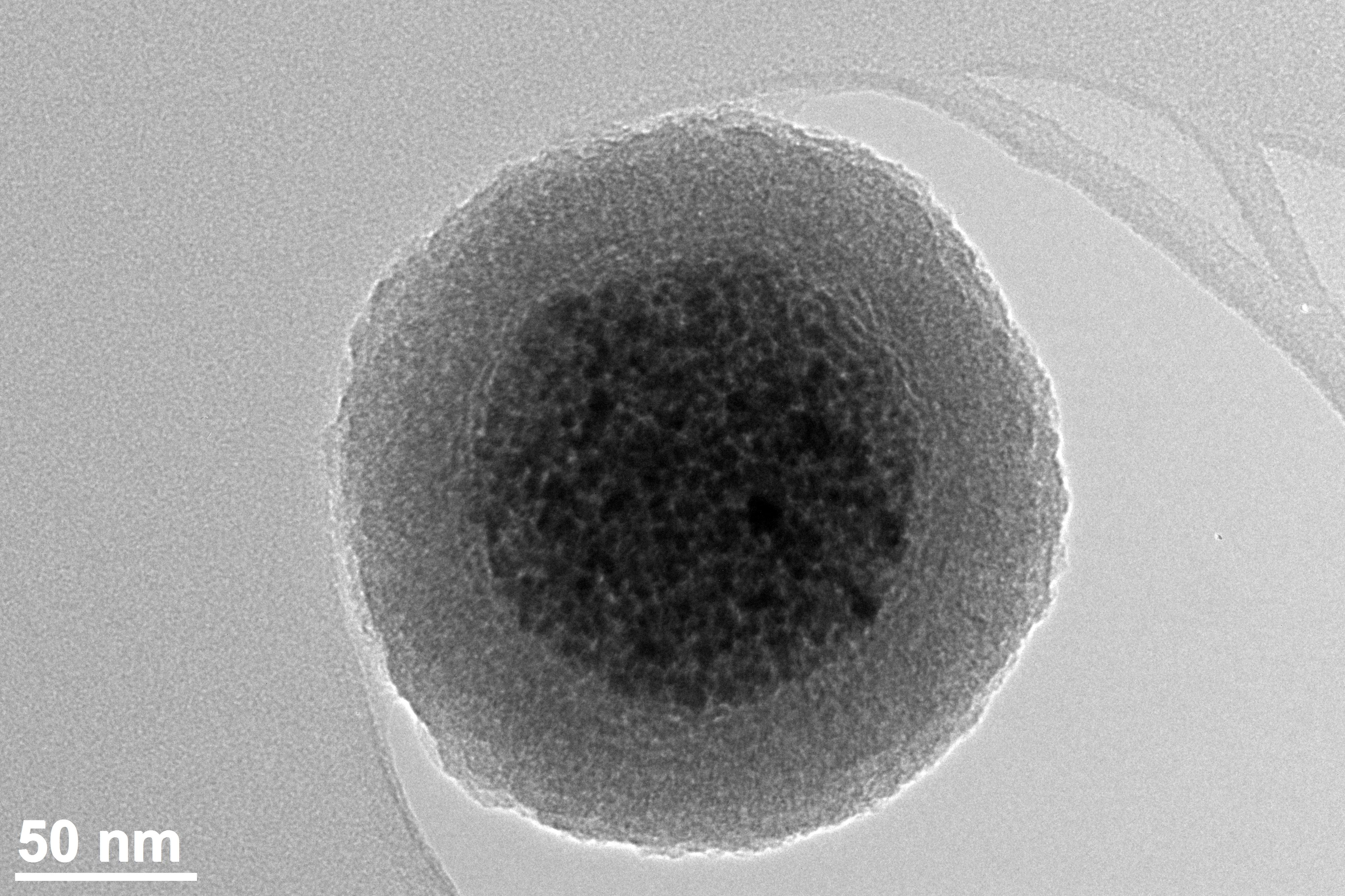 TEM image of a magnetic nanoparticle cluster with a silica shell. The core is composed of a number of individual maghemite superparamagnetic nanoparticles. The clusters display much larger magnetic moments than individual nanoparticles.